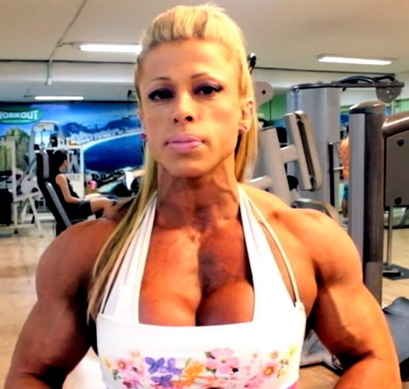 ANNE FREITAS Real Pro Workout Full video to rent online for 72hs, easy and safe to rent in - Anne Freitas, always with her exuberant beauty, in pre-contest for your first professional championship she has the very large and defined muscles in this video. Conducted by your coach Ricardo Pannain uses new training techniques and talks about how he organizes his diet. Beautiful and gentle Anne Freitas trains without losing elegance as a Diva. The Sports Documentary was recorded entirely in Rio de Janeiro - Brazil. Direção: Robson Clério Produção: Design de Audio: Guga Lourenço Assistente: Bruno Thato Atleta: Anne Freitas Treinador: Ricardo Pannain Sounds: Break_You_In - Creative Commons Move_Out - Creative Commons